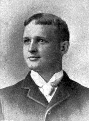 Photo of American footballer, Harry Beecher.